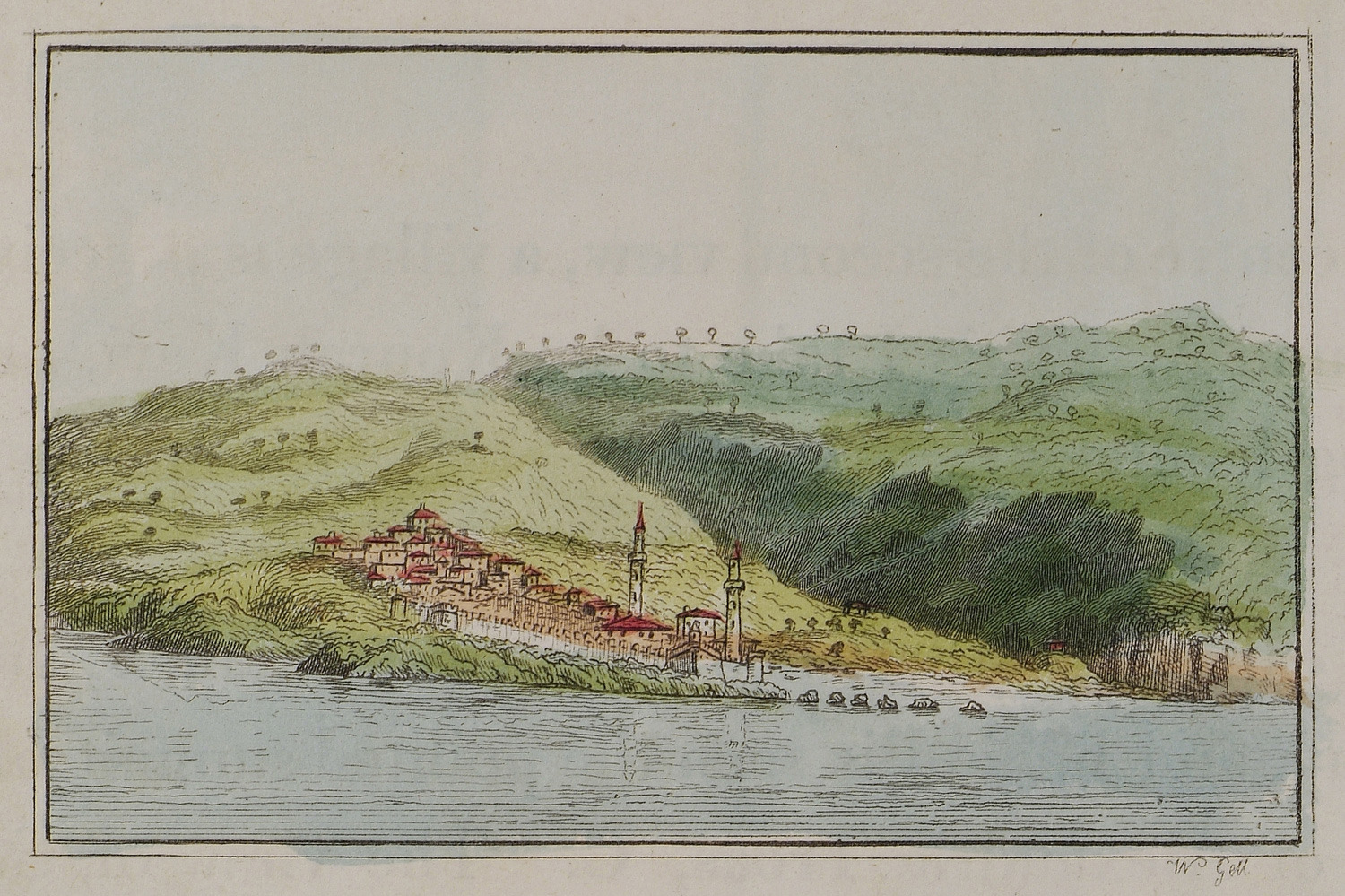 View of the village Babakale in the Troad - Gell William Sir - 1804